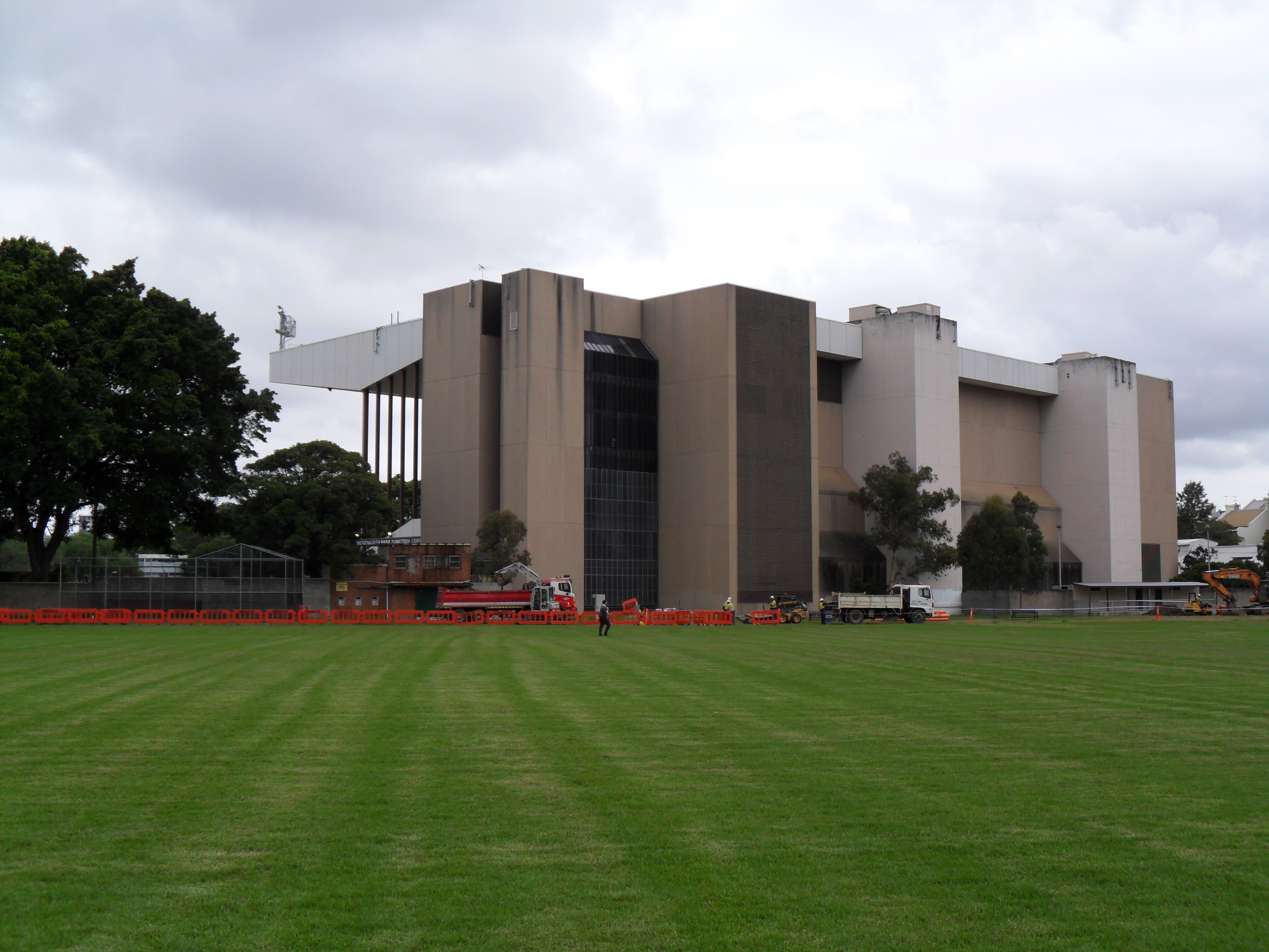 Wentworth Park, grandstand